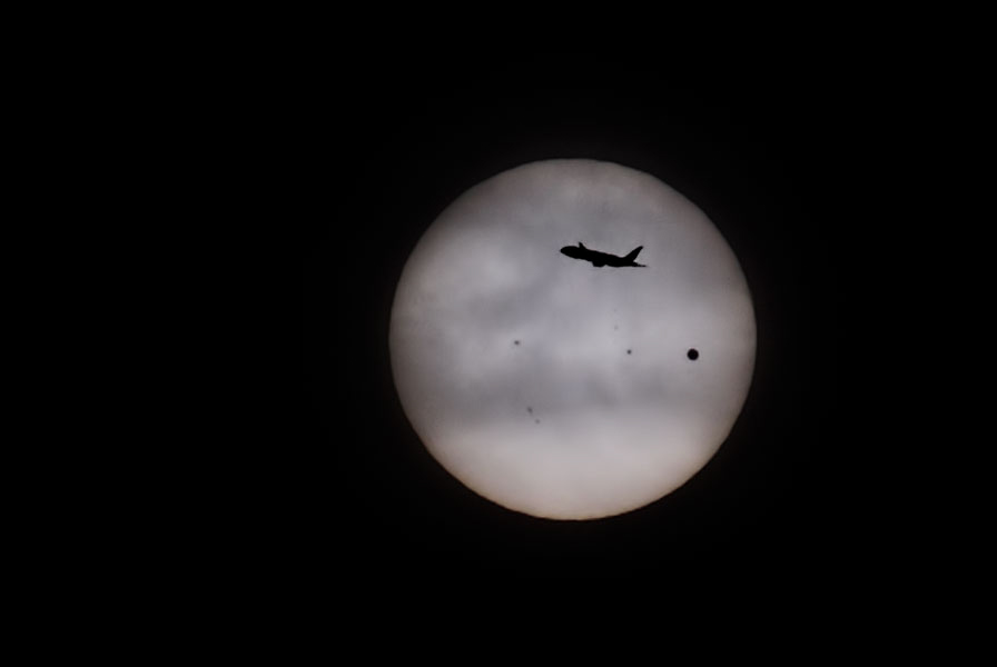 Transit of Airplane during Transit of Venus across the Sun as seen on June 05, 2012 from San Francisco, California, USA. Captured using a NIKON D300 with a Nikon 80-200mm f/2.8 lens with a Mylar solar filter